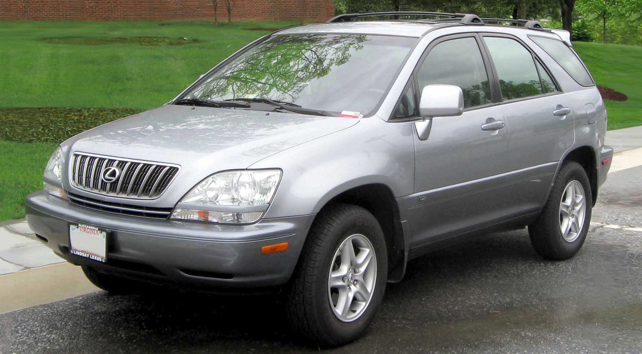 Lexus RX300 photographed in College Park, Maryland, USA.